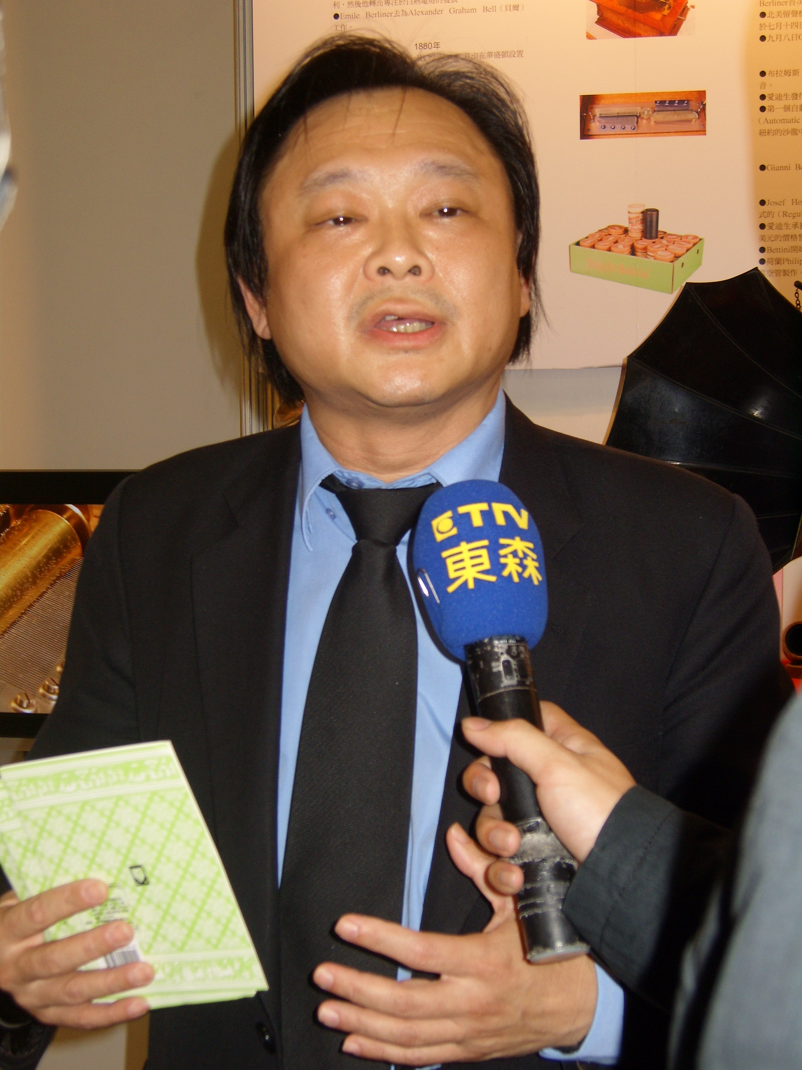 DPP Legislator Shih-chien Wang.